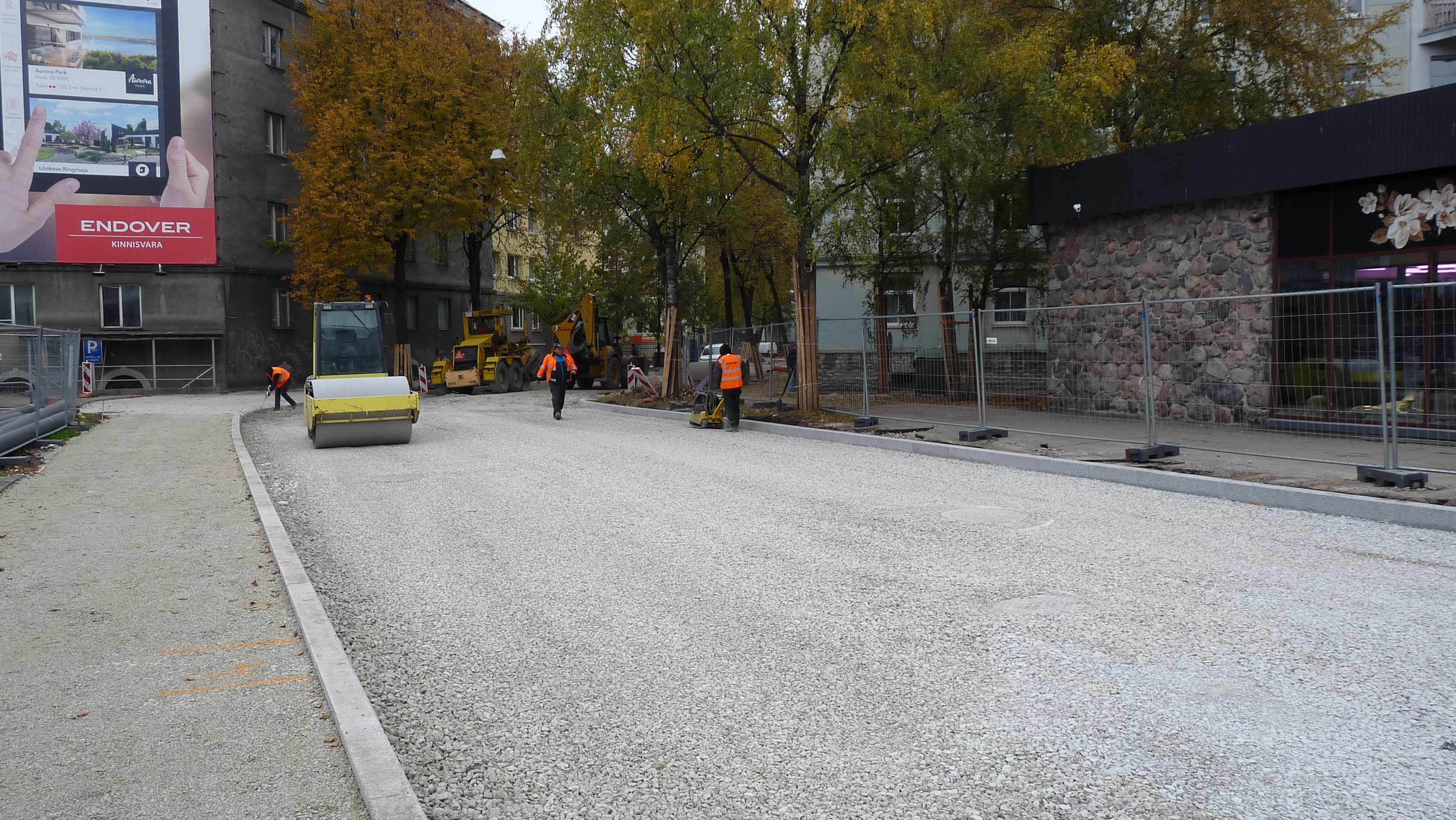 Roadworks in Tallinn, Estonia